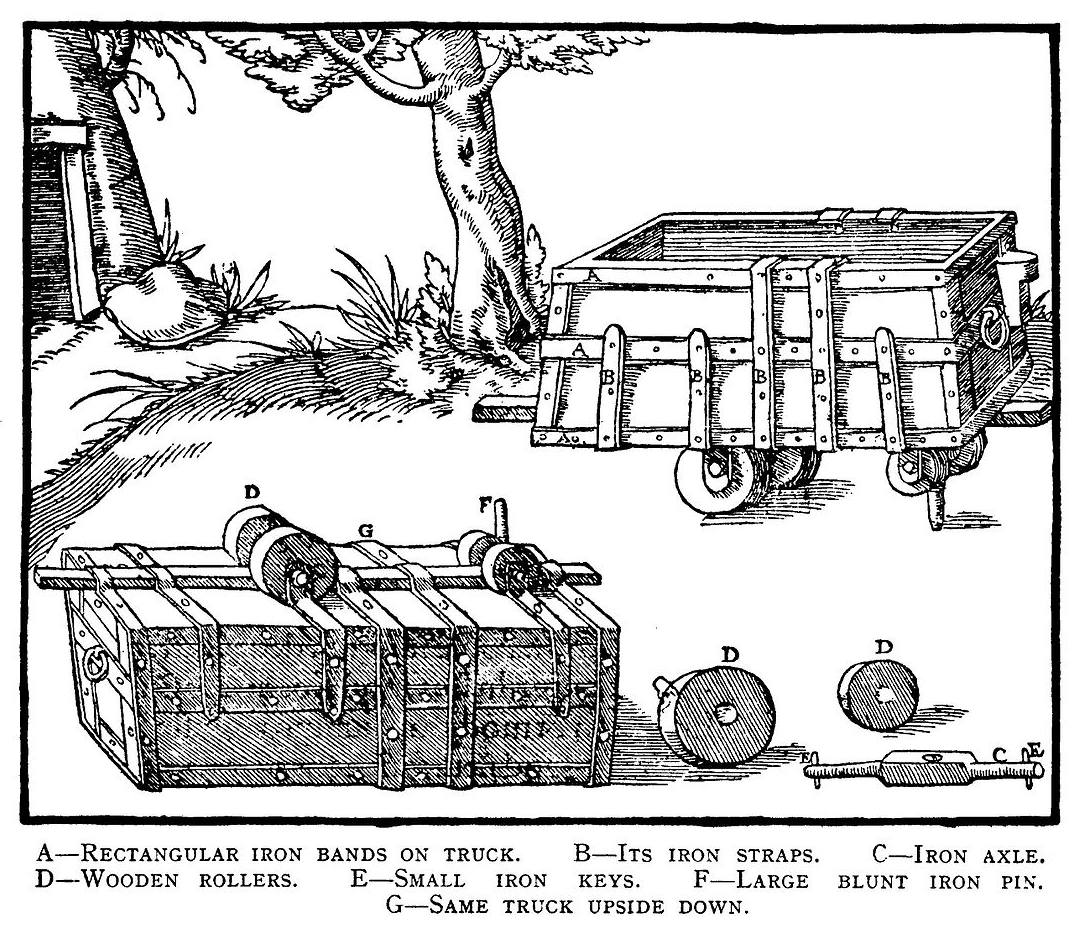 Early mine wagon (German: "Leitnagel Hund") running on wooden rails. The vertical pin ran in the slot between the two narrowly separated wooden rails